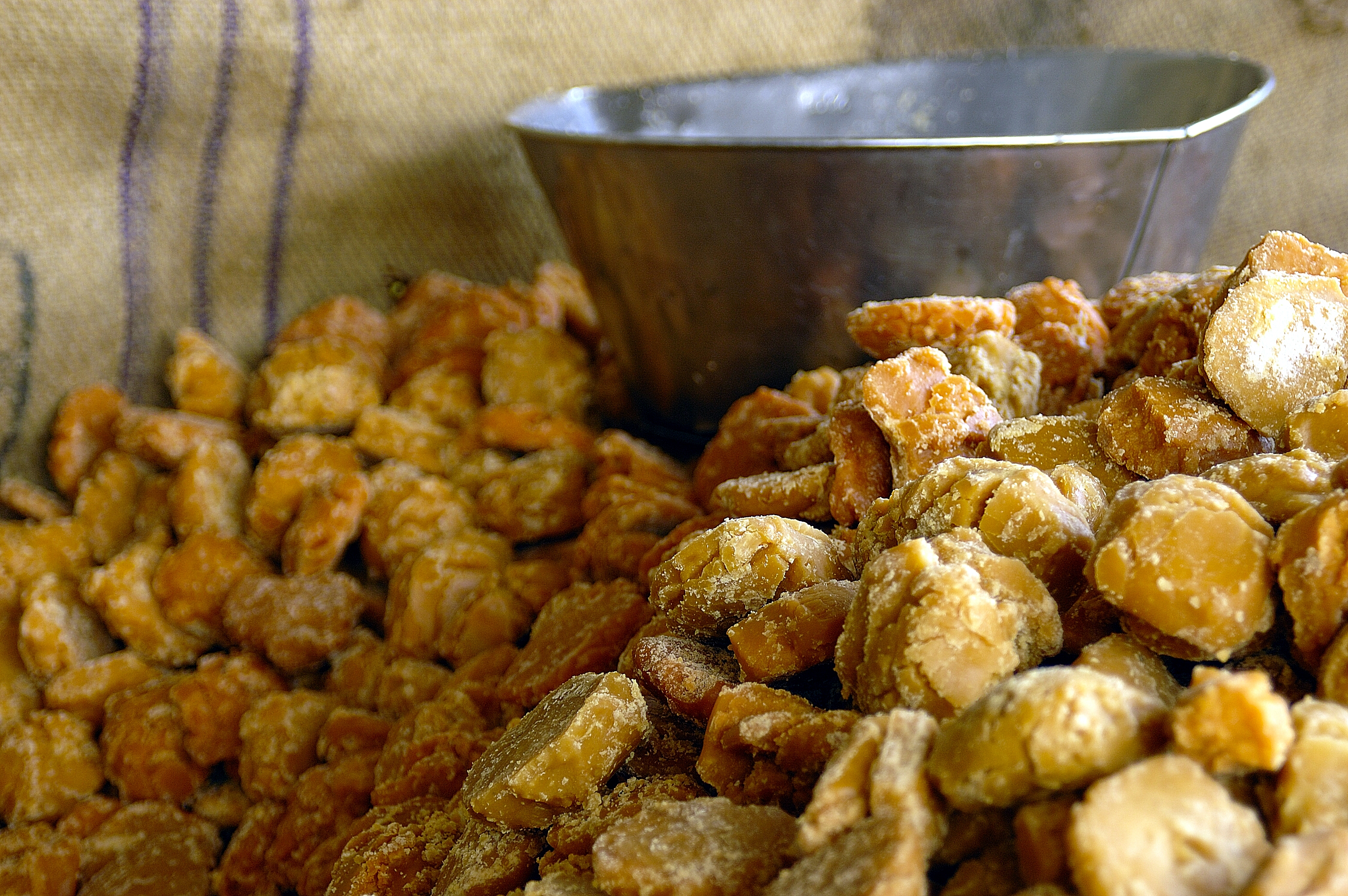 Raw sugar blocks or crystal cubes derived from sugar cane. Byproduct of the above solids, are molasses. also called "gud" (गुड) in North India, jaggery first mention of "gud" is found in ancient Sanskrit documents Punjab, India